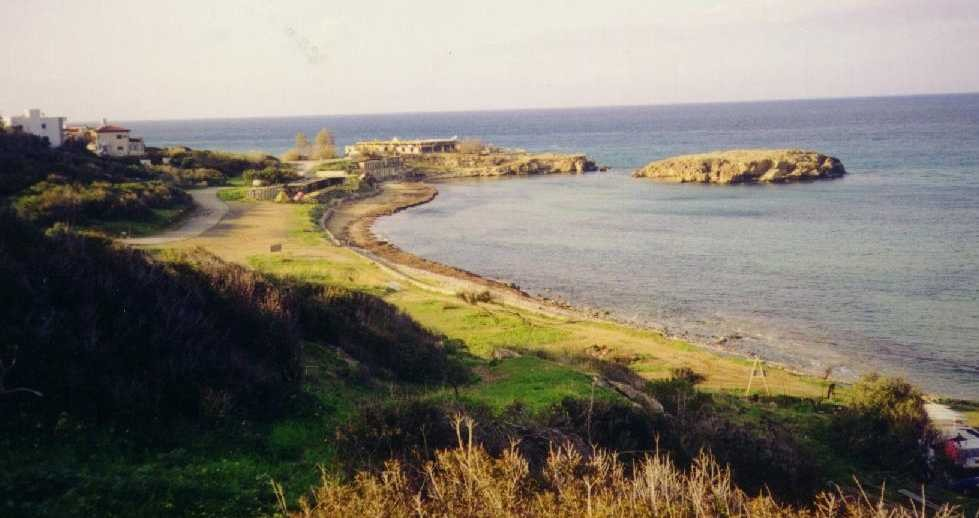 Pentemili beachhead, Cyprus